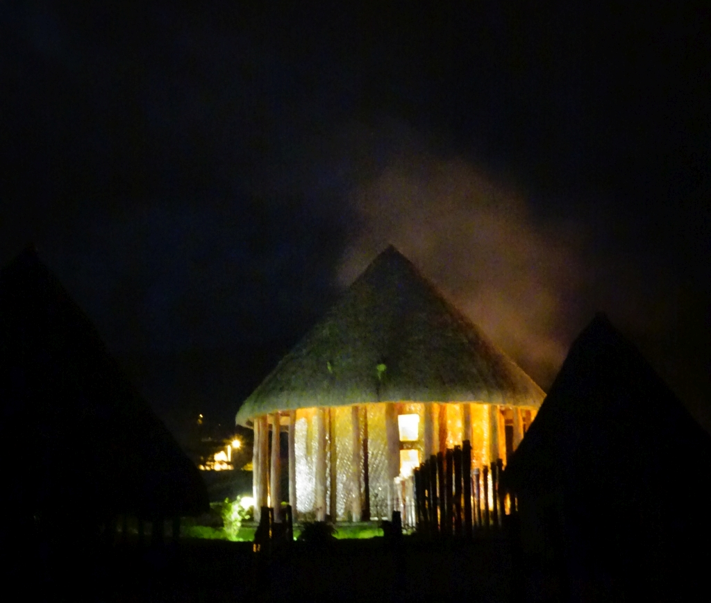 Smoke at the Sun Temple in Sogamoso, located in the Archaeology Museum, during the Fiesta del Huán; the yearly festivity honouring Sun god Sué around the December solstice